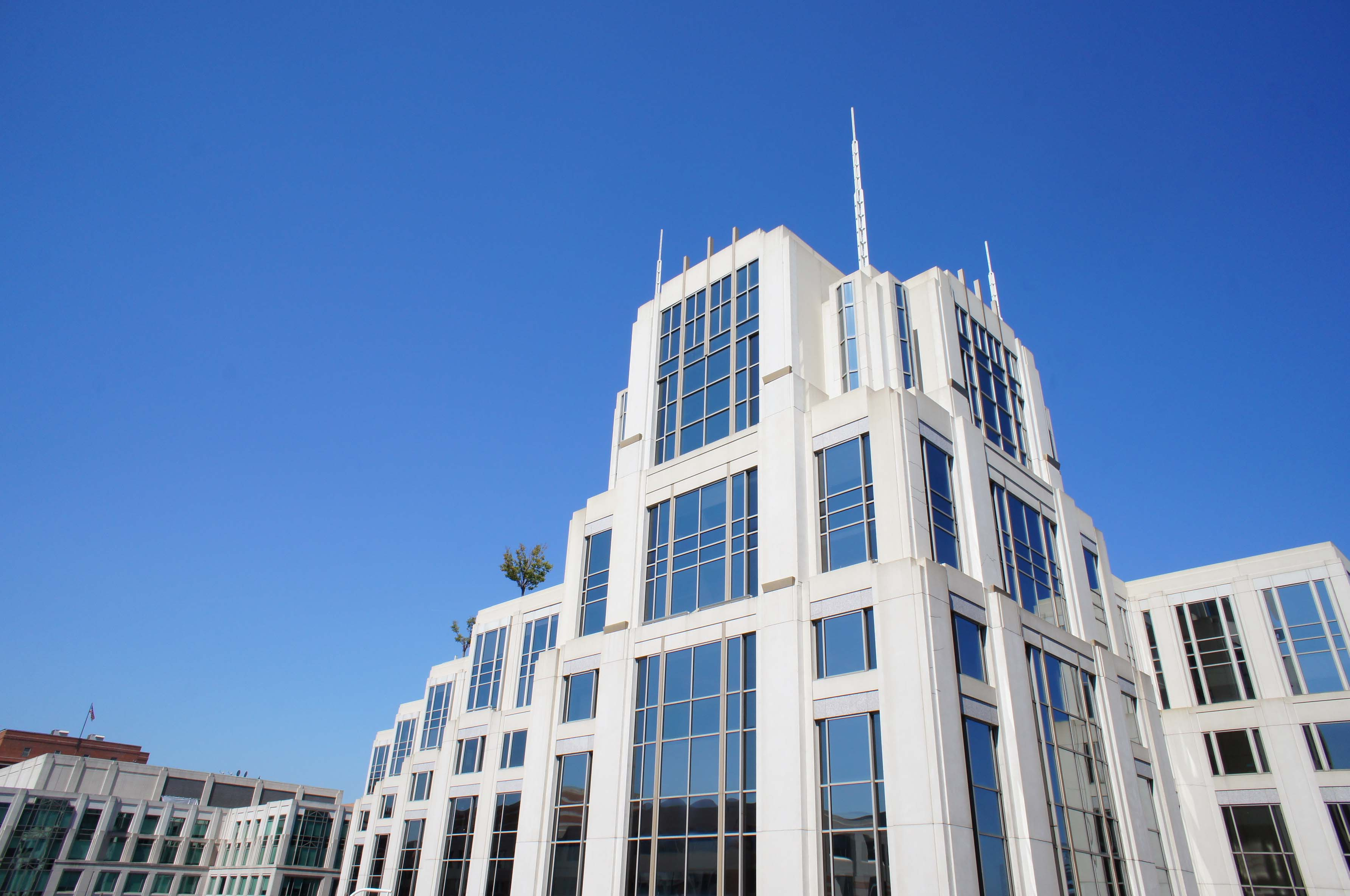 This photo of the American Psychological Association building was taken from bridge overpass behind Union Station In Washington DC on September the 8th, 2012.